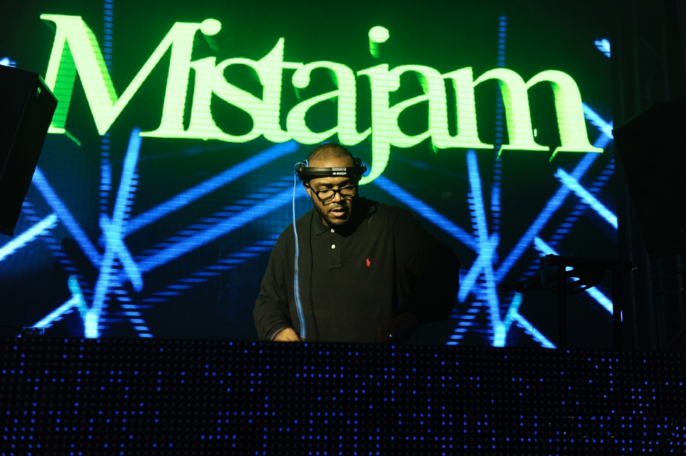 31.07.12 - Together. More pics at